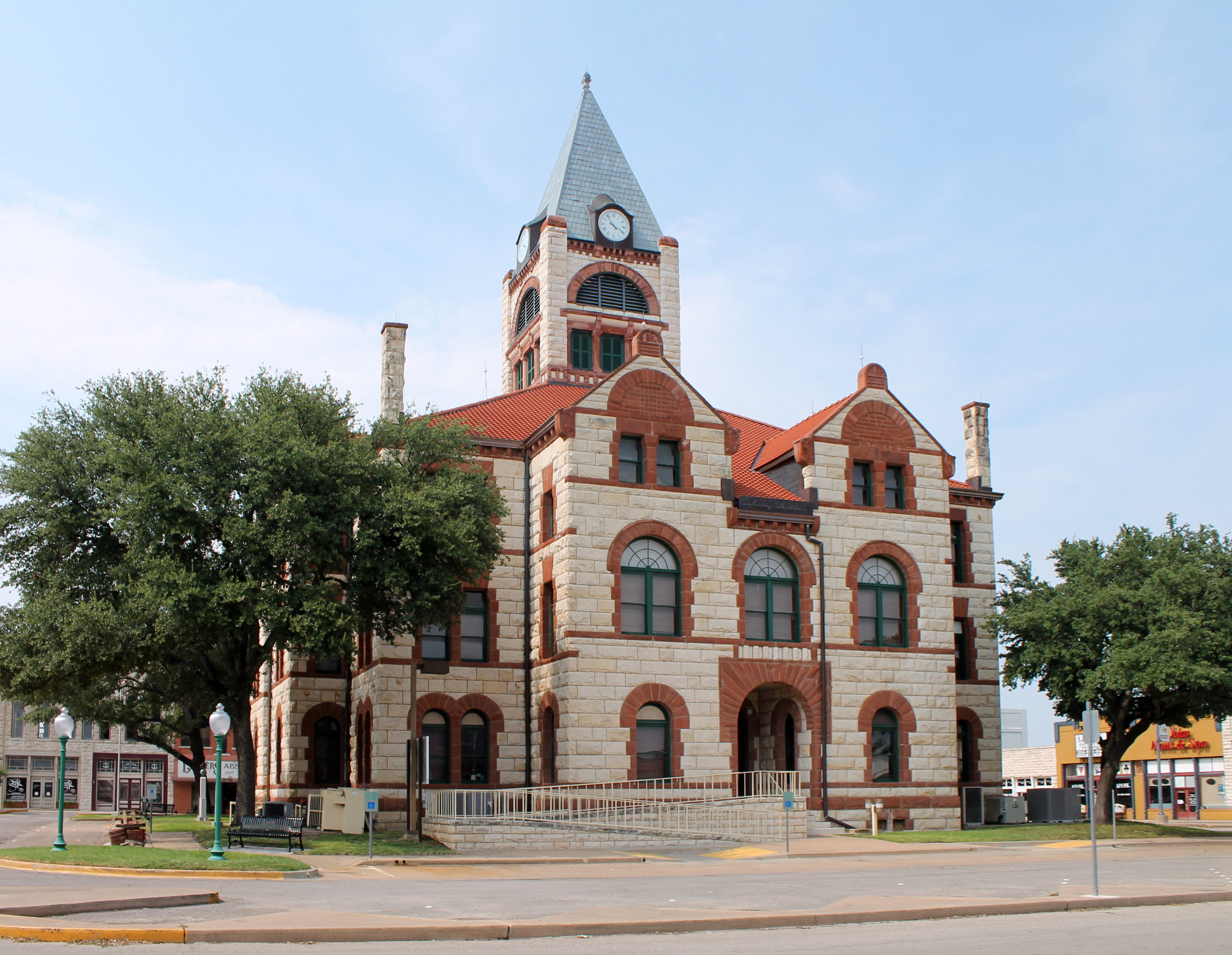 Erath County Courthouse in Stephenville, Texas